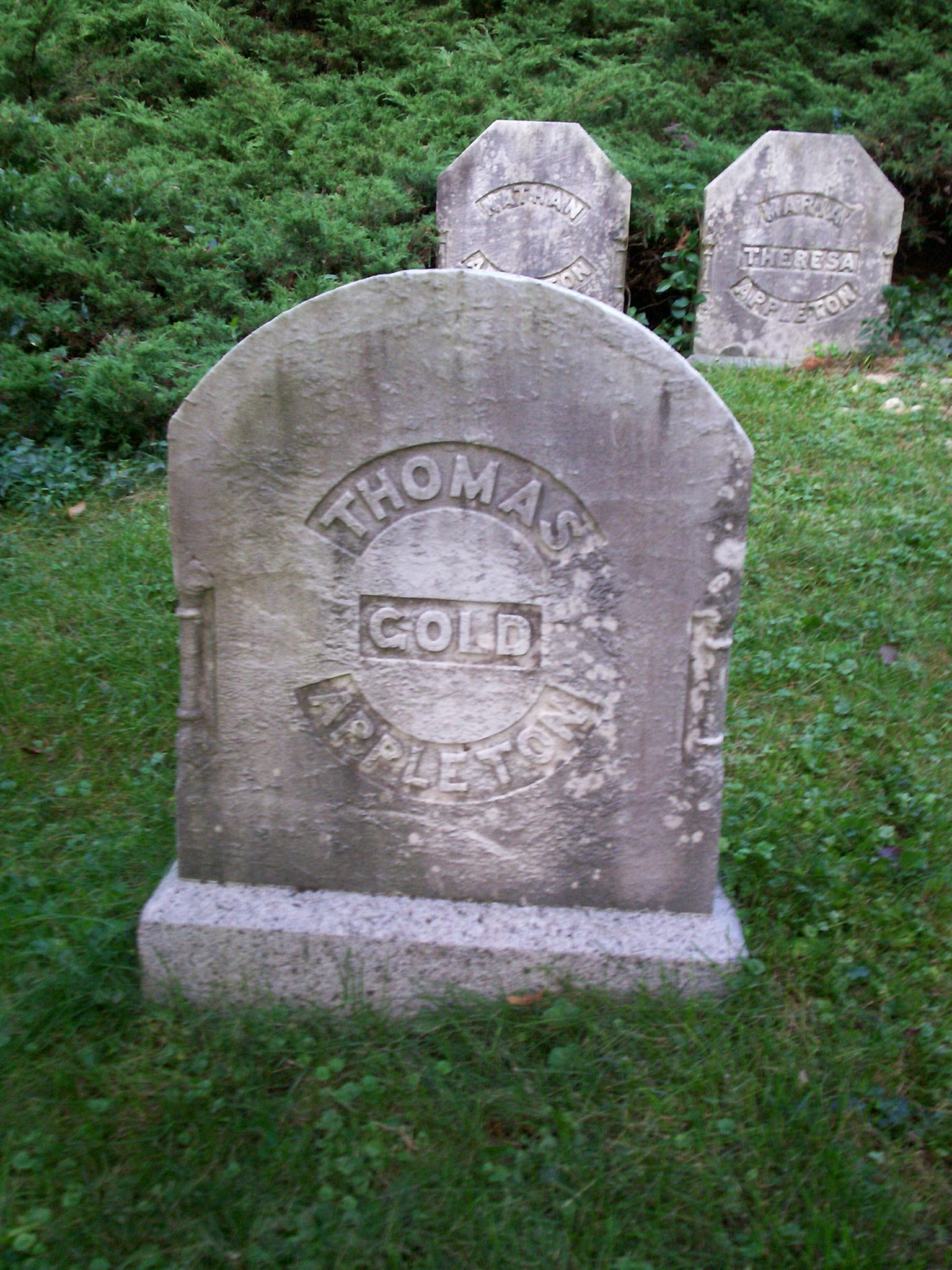 Grave of artist and poet Thomas Gold Appleton (1812-1884) at Mount Auburn Cemetery in Cambridge, Massachusetts. The headstones for his parents, Nathan and Maria Theresa Appleton, can be seen in the background.